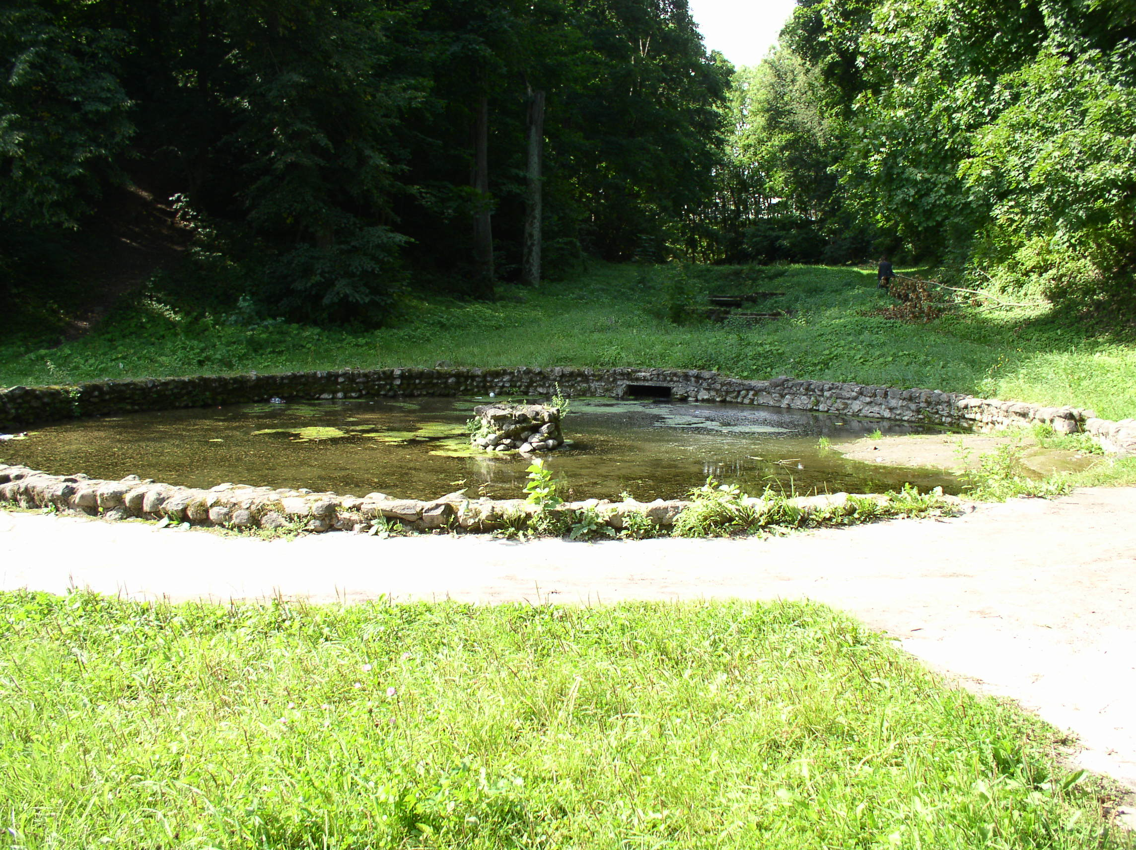 Park of the former Tyshkievich family manor. Lahoisk, Belarus.